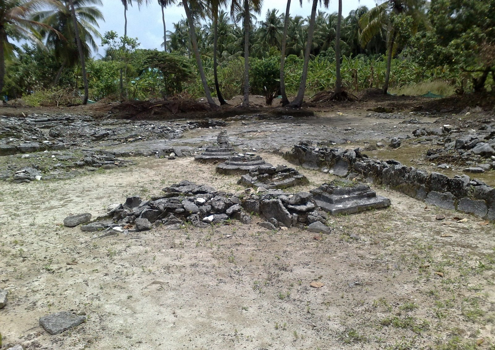 Buddhist Monastery in K.Kaashidhoo, Maldives (Sideview) Picture showing the ruins of a Buddhist Monastery. A historical site (Kuruhinna Tharaagandu) in Kaafu, Kaashidhoo, reminiscent of the Buddhist population that was once established in the Maldives. The ruins lay bare to the monsoons. Although appreciably preserved when excavated, the condition of the site has rapidly deteriorated. ދިވެހިބަސް: ކާށިދޫގަ ހުންނަ ކުރުހިންނަ ތަރާގަނޑު ދައްކުވައިދޭ ތަސްވީރެއް. މިއީ ރާއްޖޭގެ ތަރިކައިގެ ތެރެއިން ބުޑިސްޓު އާސާރު ދައްކުވައިދޭތަނެއް. ވެހޭހާ ވާރެއަކާ ދޭހާ އަތްވަކަށް ތަރާގަނޑު ހުށައެޅިފައިވުމުގެ ސަބަބުން ވަރަށް އަވަސް މުއްދަތެއްގައި މިތަނުގެ ހާލަތު ދަށް ވަމުންގޮސްފައިވޭ